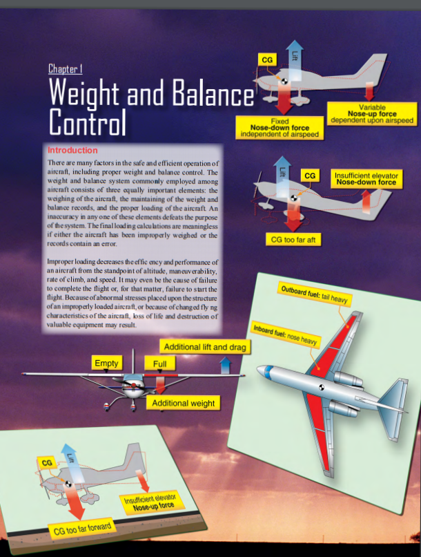 This image is used to show how loads effect aircraft and the dangers therign